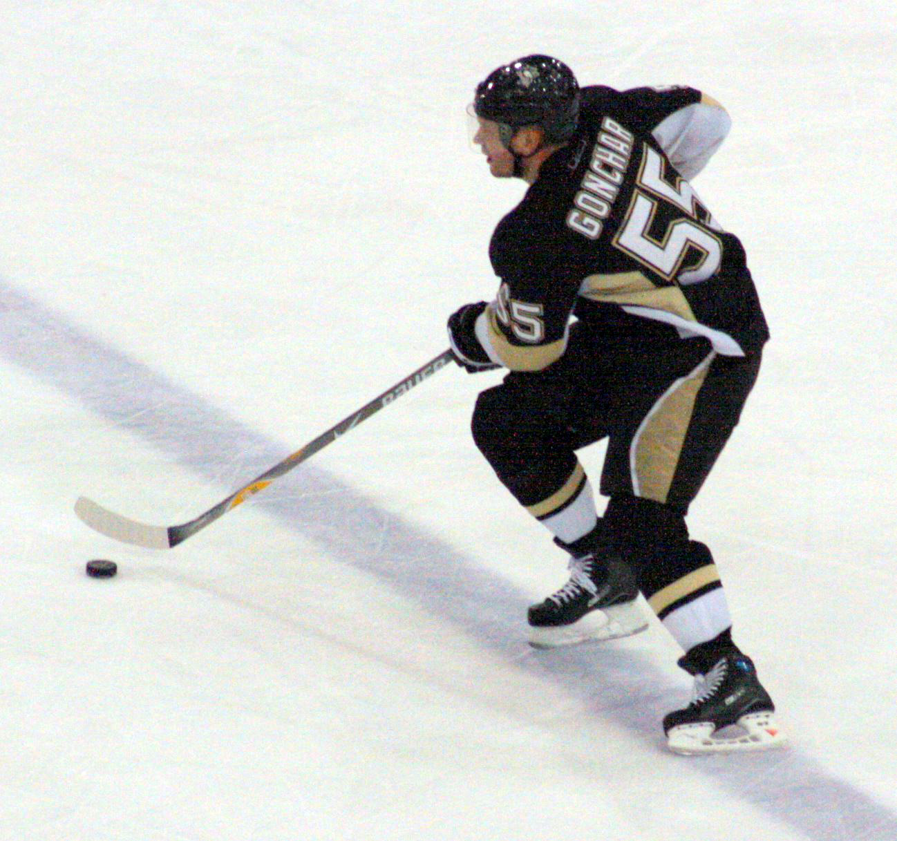 Sergei Gonchar; Picture taken by LeoDaVinci, Penguins vs. Florida Panthers, Feb. 19th, 2008.